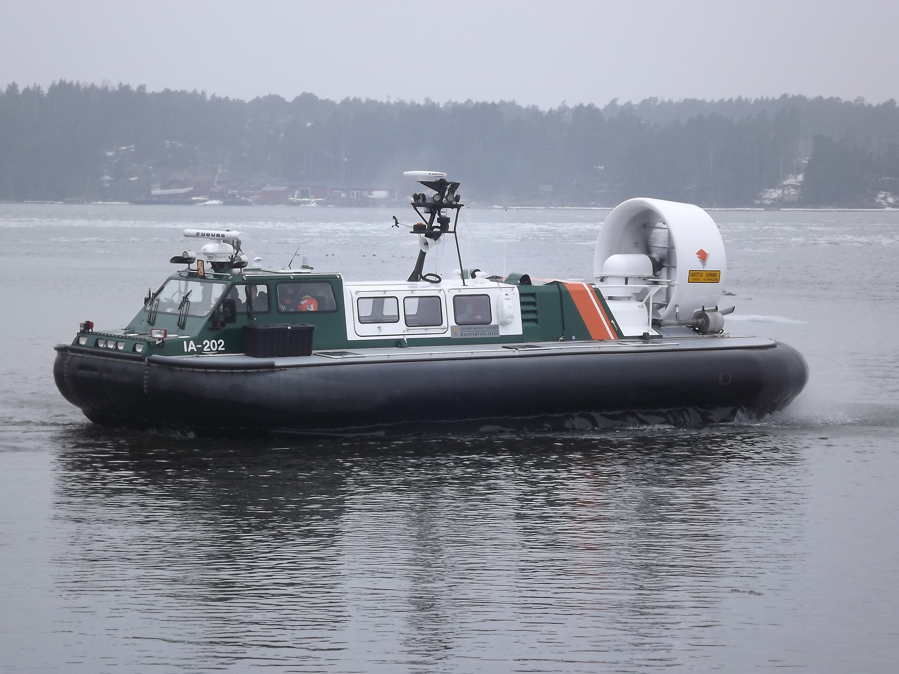 Hover craft IA-202 of the border guard turning to fetch more people at rescue training event Otto in Nagu 2013, image 1.